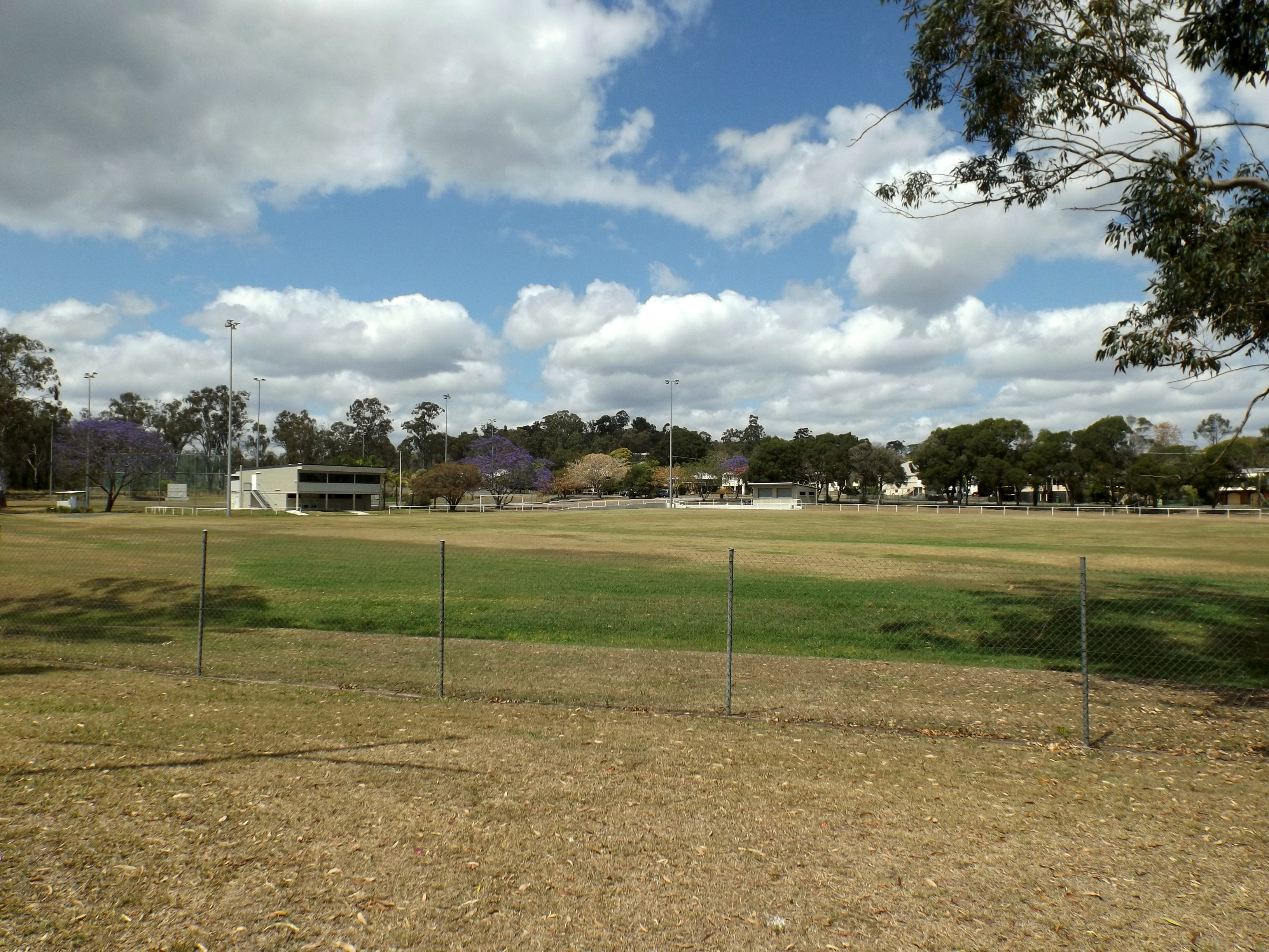 Photo of the Ebbw Vale Memorial Park sports grounds at Ebbw Vale, Ipswich, Queensland, Australia.